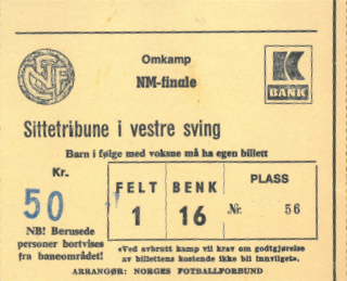 Ticket from the replay in the Norwegian Football Cup final of 1984.